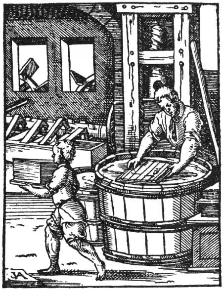 Papermaking by hand. Woodcut.